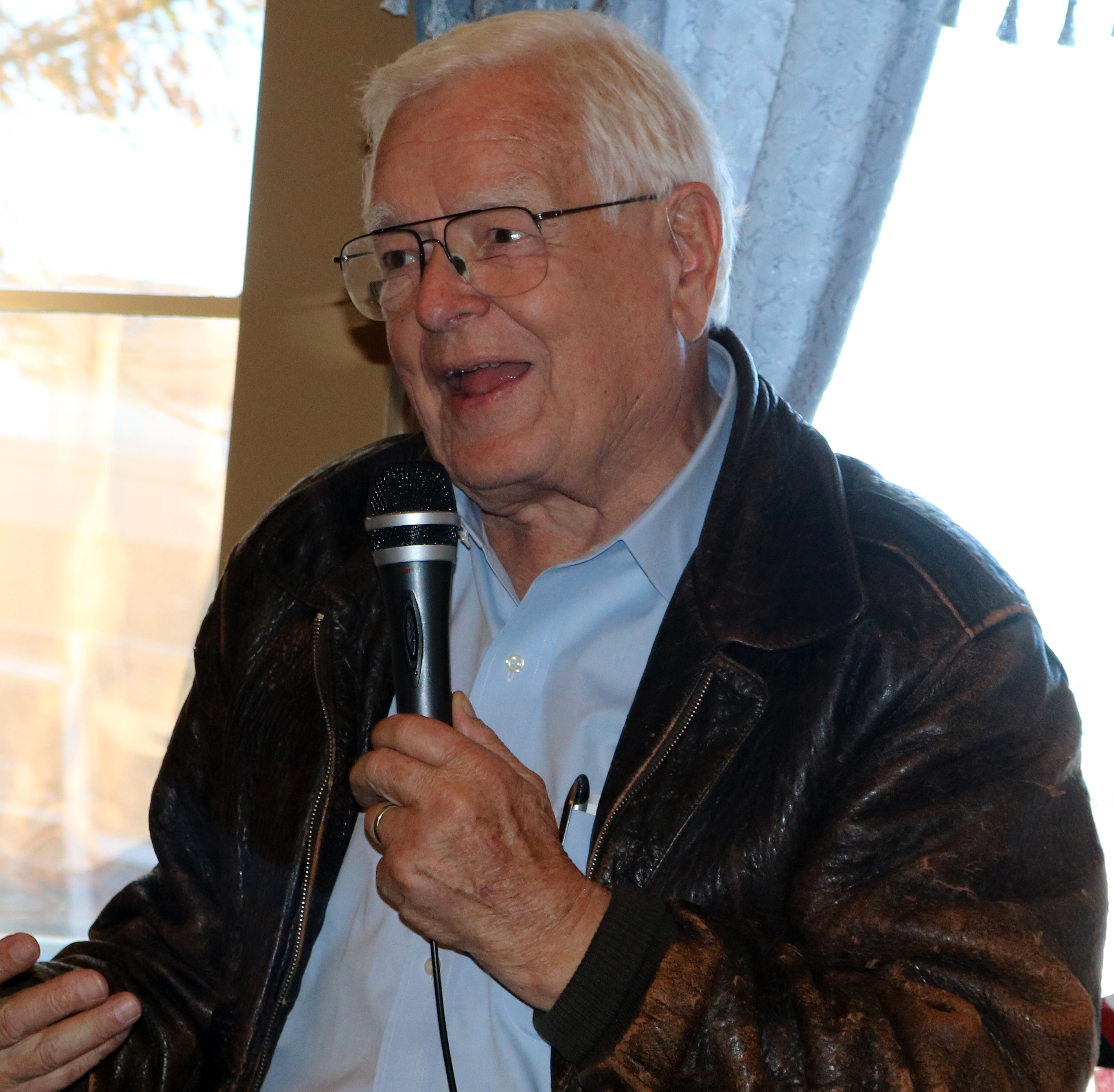 Roy Romer, a former governor of Colorado, campaigning for fellow Democrats in Walsenburg in October, 2018.